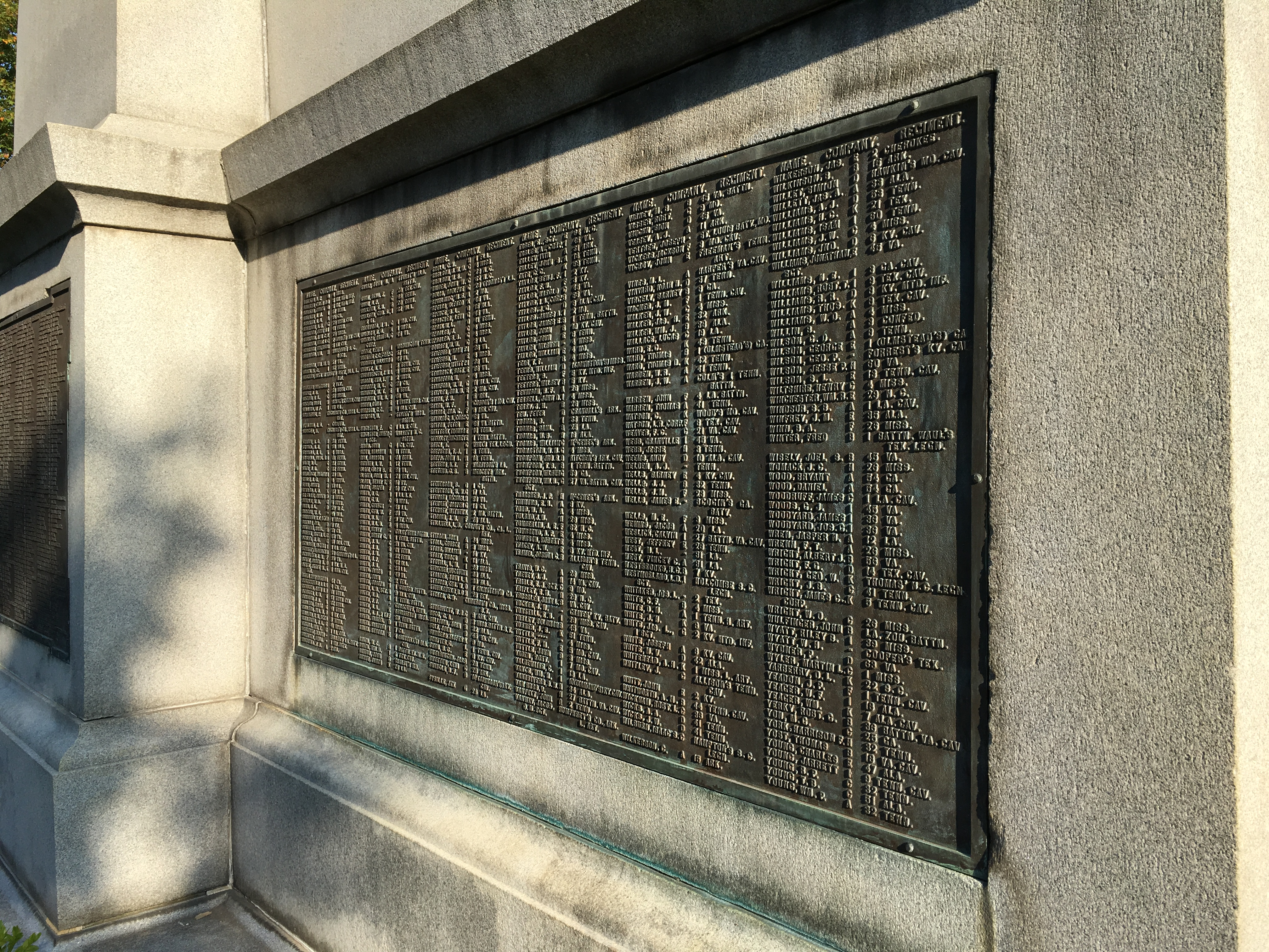 Confederate Soldiers and Sailors Monument (Indianapolis) in Garfield Park, Indianapolis, USA